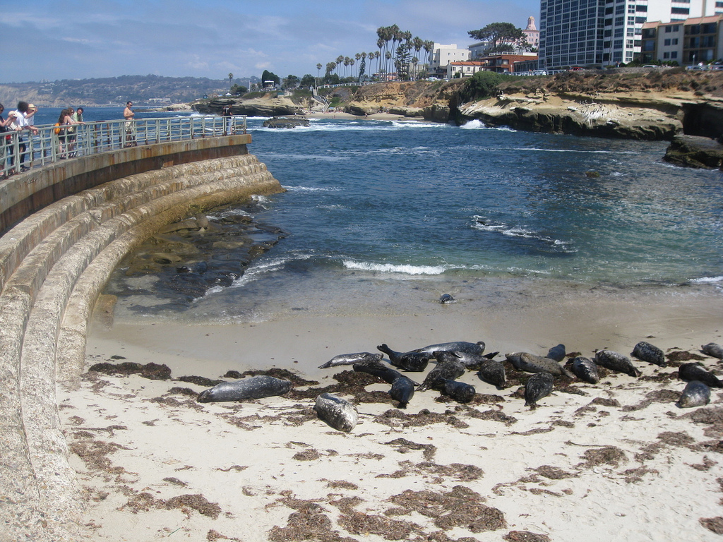 Seals in La Jolla, San Diego